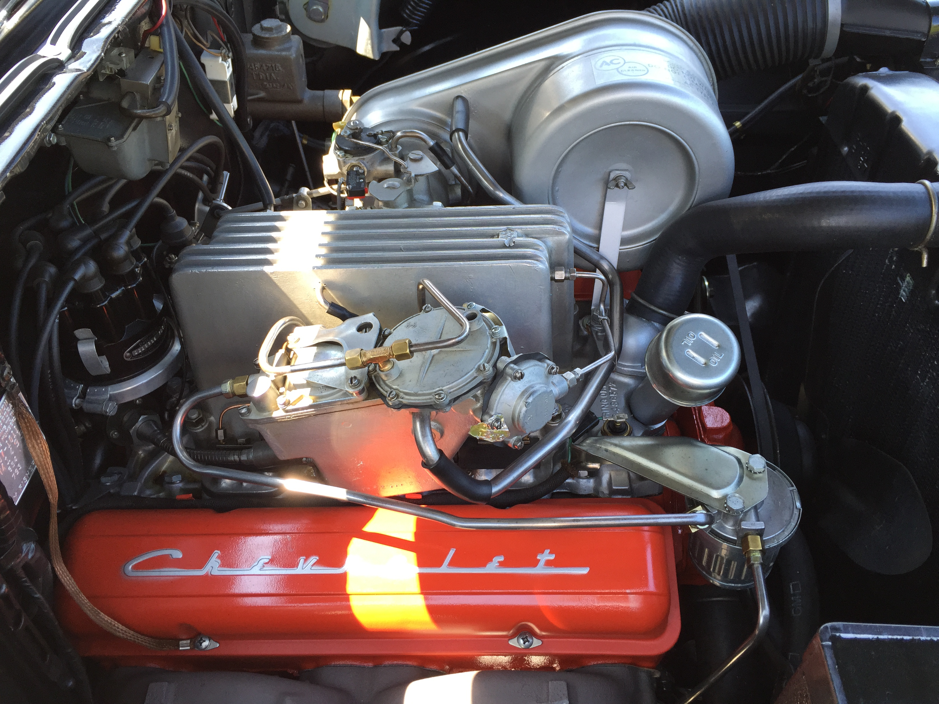 1957 Chevrolet 210 two-door sedan with the 283 cu in "Super Turbo-Fire" OHV V8 with Rochester Ram-Jet fuel injection. This car is in original factory condition, without modifications or customization, and is historically correct by not been butchered in any way. Picture taken at the 52nd Annual "Das Awkscht Fescht" antique car show in Macungie, Pennsylvania.